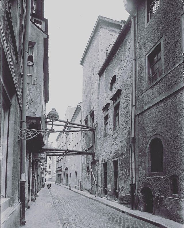 The underpined house is a Wollerhaus (aka Steyerhaus) in Untere Bachgasse street, the house of Regensburger Synagoge in 1841-1907. It was demolished in 1938.